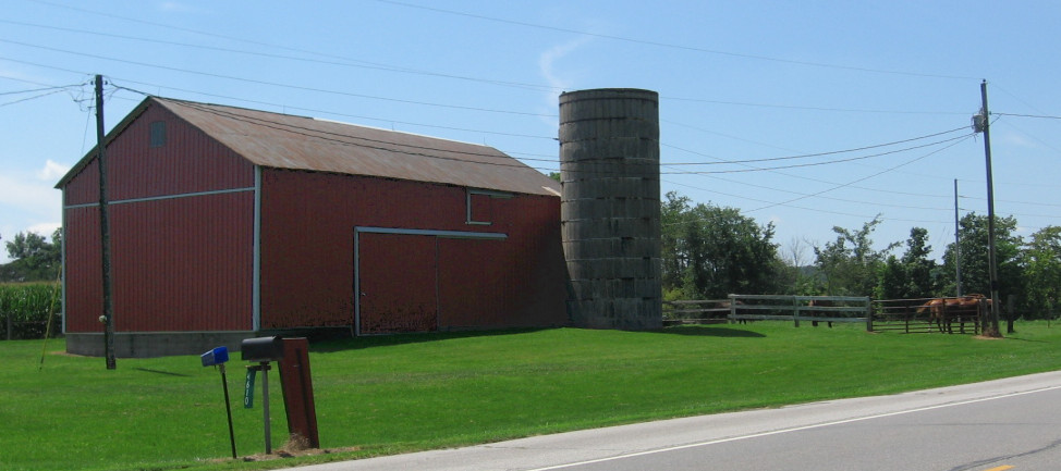 This barn is located the western outskirts of Plato, Indiana, along the south side of U.S. Route 20 in LaGrange County.